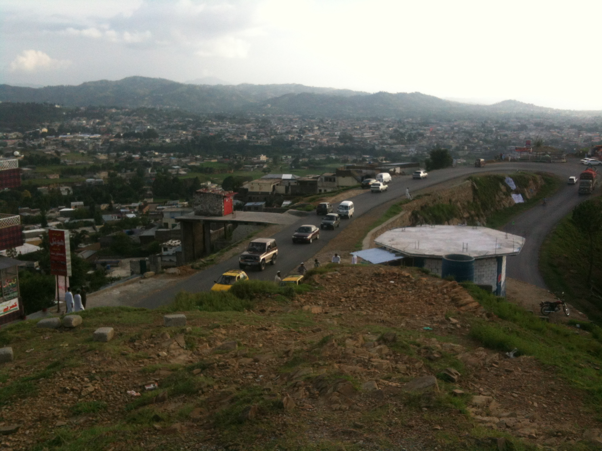 View from a hill in Mansehra, Khyber Paktoonkhwa